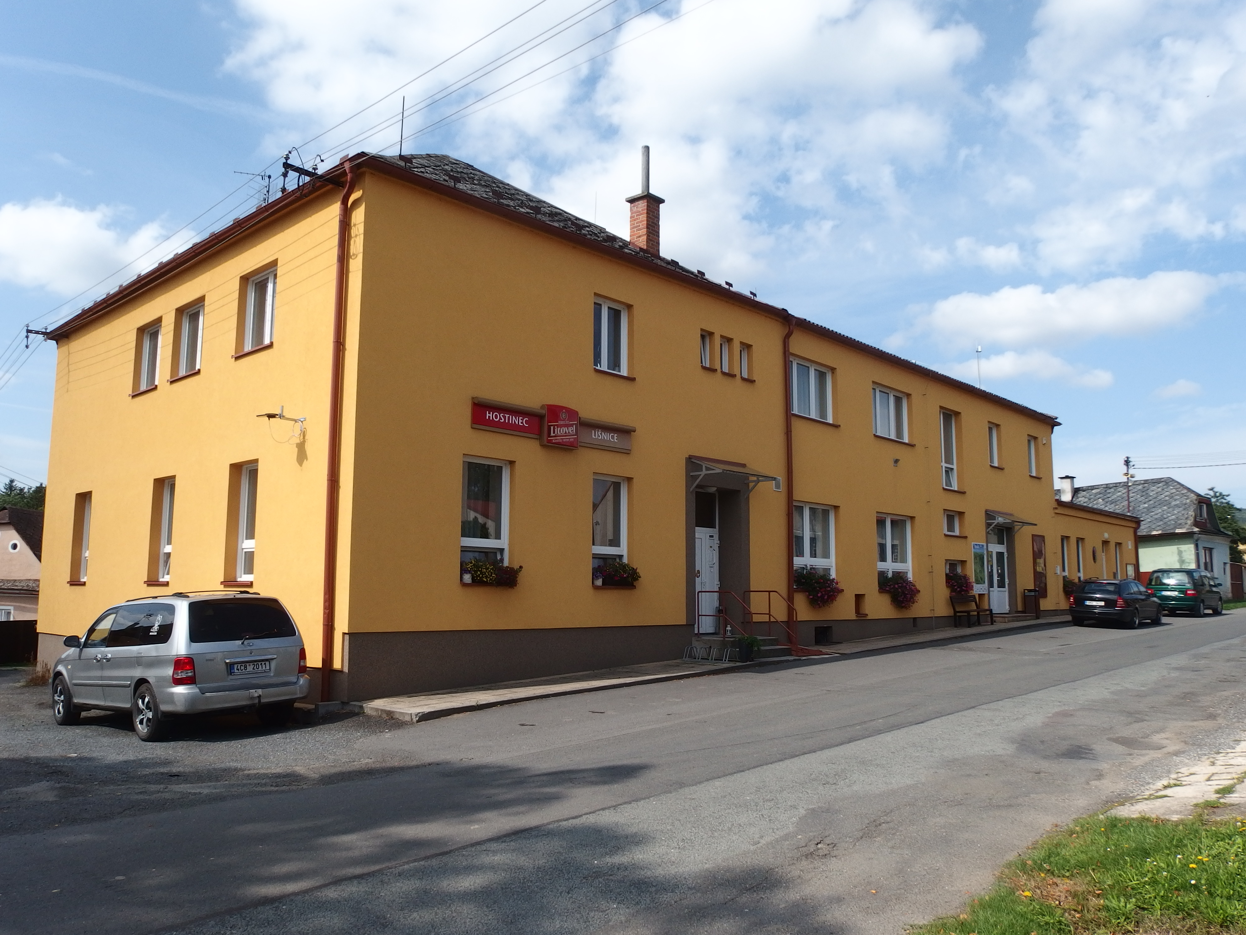 Líšnice, Šumperk District, Czechia.